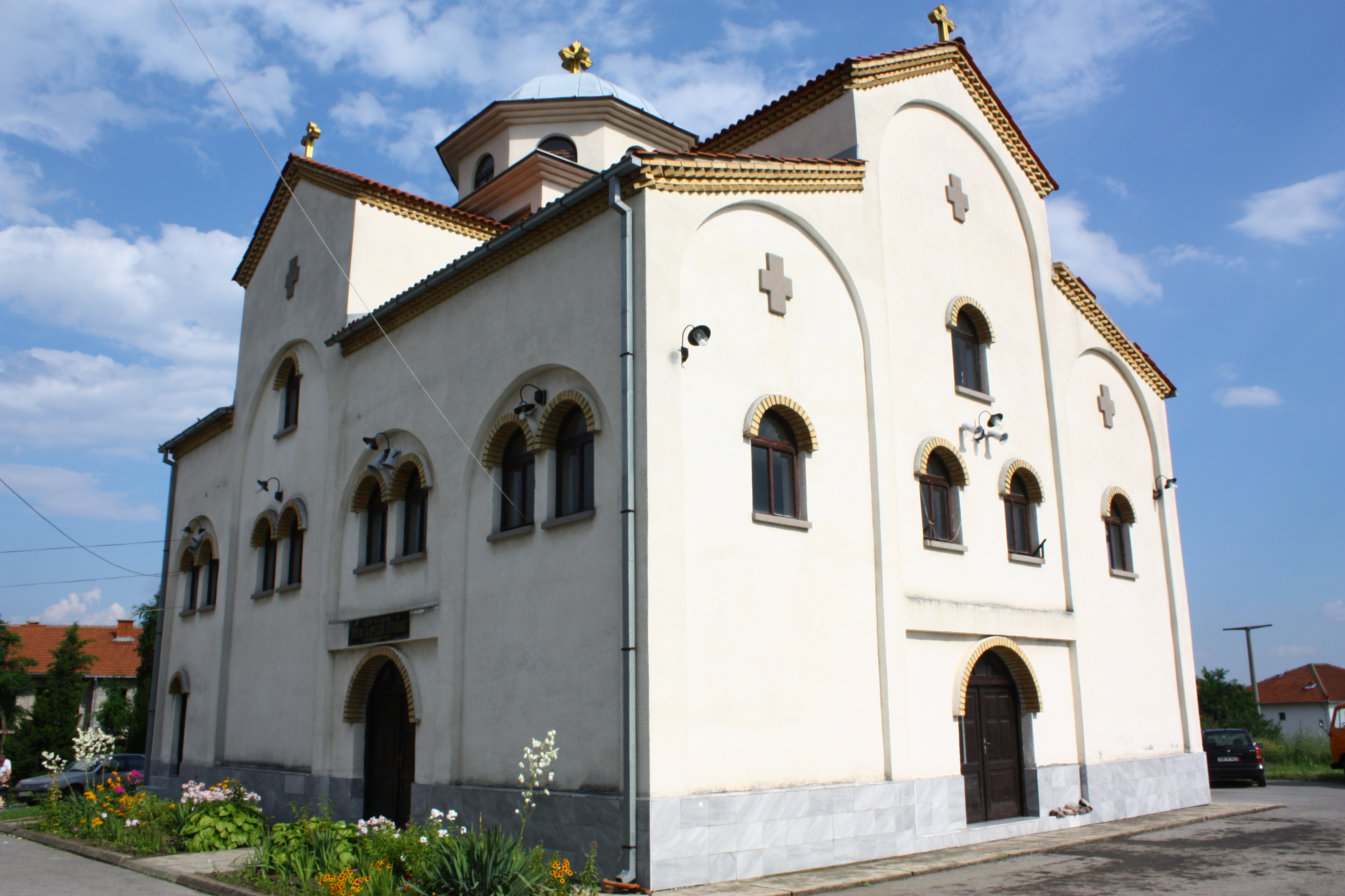 Dormition of the Theotokos Church in Probištip, Macedonia